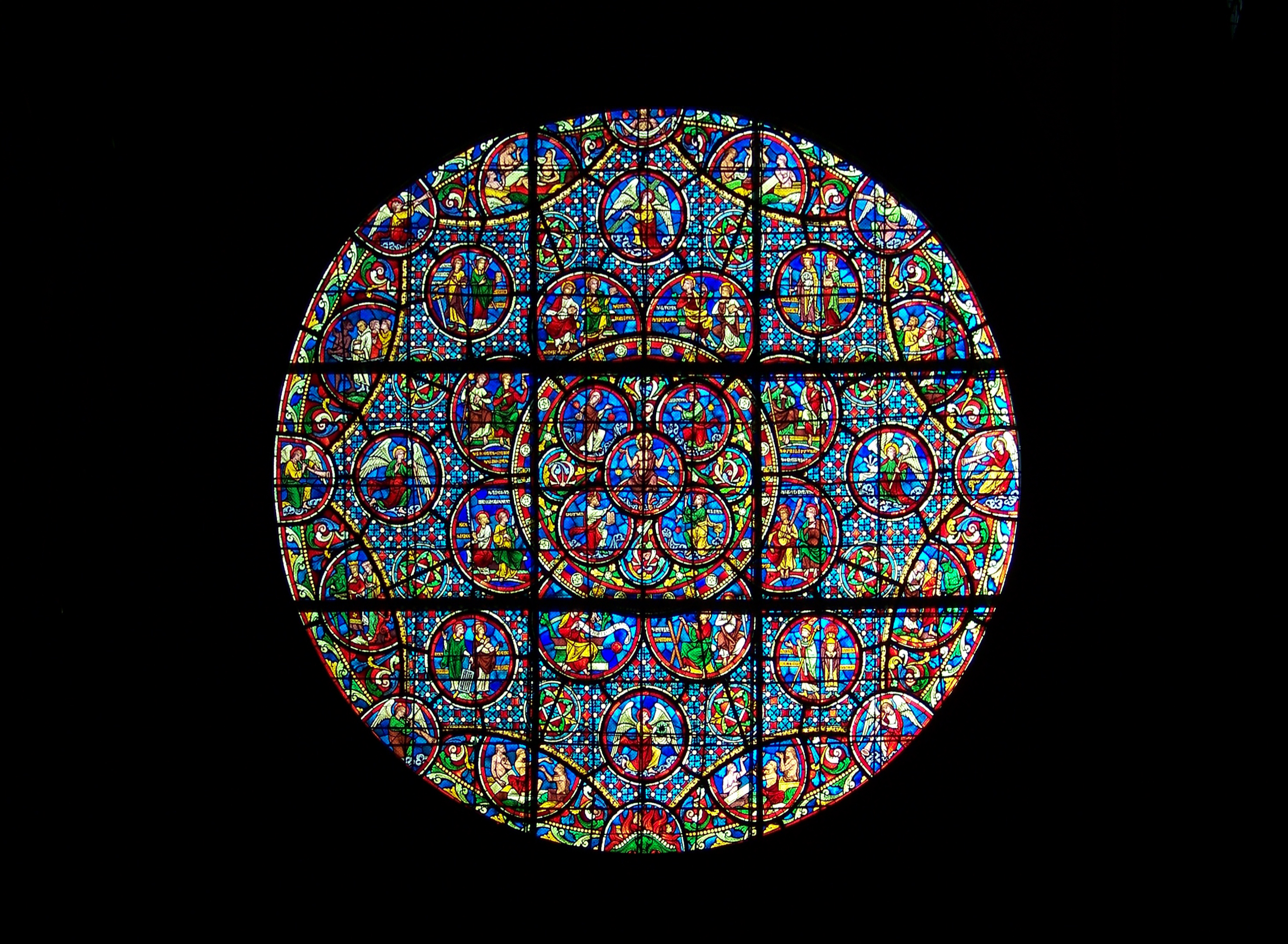 Southern rose window (figuring the Last Judgment) of the church Notre-Dame in Dijon. Realized by Édouard Didron between 1874 and 1897.